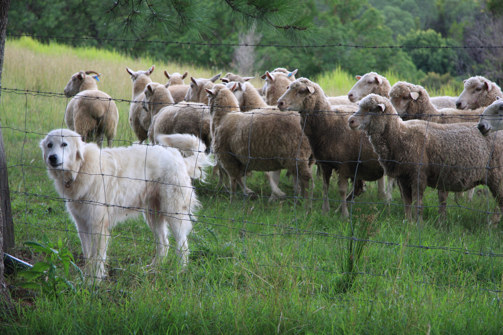 An Australian livestock guardian dog (LGD) protecting its flock of sheep.